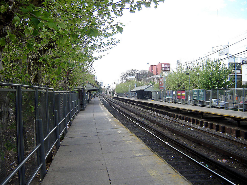 Dr. Luis Maria Drago Station